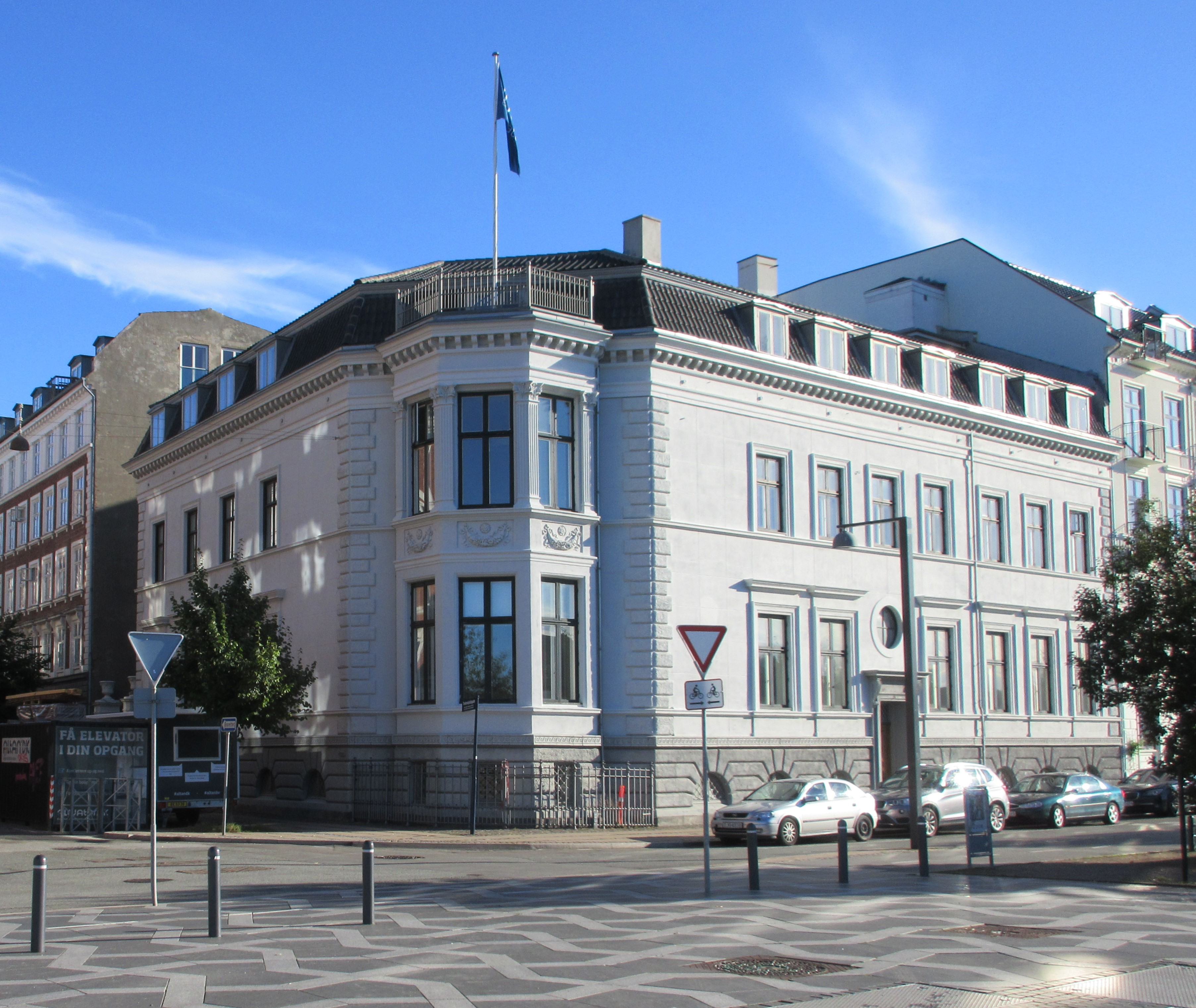 Levins Gård in Havnegade in Copenhagen, Denmark (title of file needs to be changed)